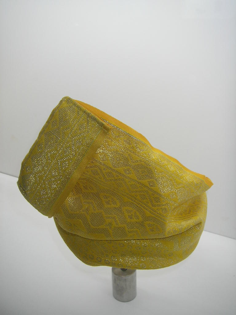 The Selangor Sultan's Headgear (Solek Balung Raja) is the yellow songket destar, an official headdress for the present Sultan of Selangor. It is worn during the State's Royal Custom and ritual ceremonies like Coronation Ceremony, Royal Birthday and so on. The destar`s design is adapted from Tengkolok Balung Ayam from Perak after a royal wedding between the two states.